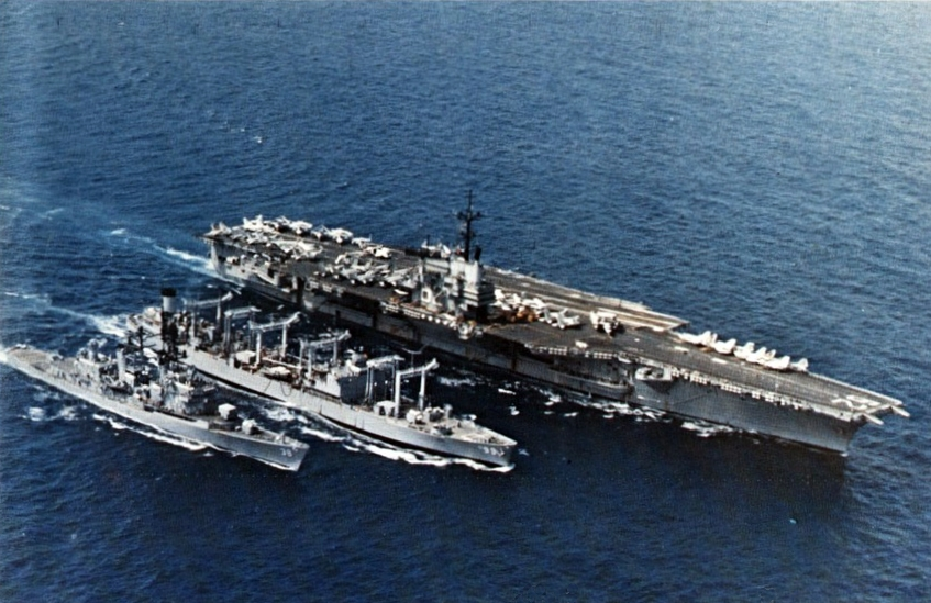 The U.S. Navy fleet oiler USS Canisteo (AO-99) refueling the aircraft carrier USS Independence (CV-62) and the guided missile destroyer USS Luce (DDG-38). Independence was deployed to the Mediterranean Sea and the Indian Ocean from 19 November 1980 to 10 June 1981.